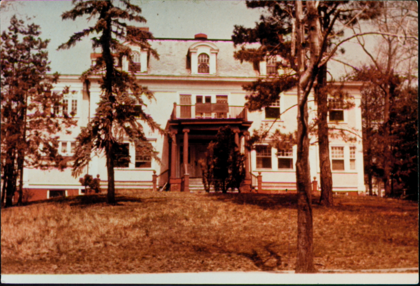 This building was the original facility that housed BMG's academic programs. It was purchased by BMG in 1943 and was in use until the 1960's.